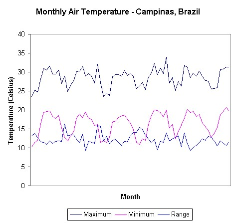 Average maximum, minimum and range of monthly air temperatures recorded in Campinas, Brazil, between January 2001 and July 2006. Produced by Renato M.E. Sabbatini, based on numerical data by the weather station of CEPAGRI/UNICAMP. Uploaded by the author, reproduced with permission.